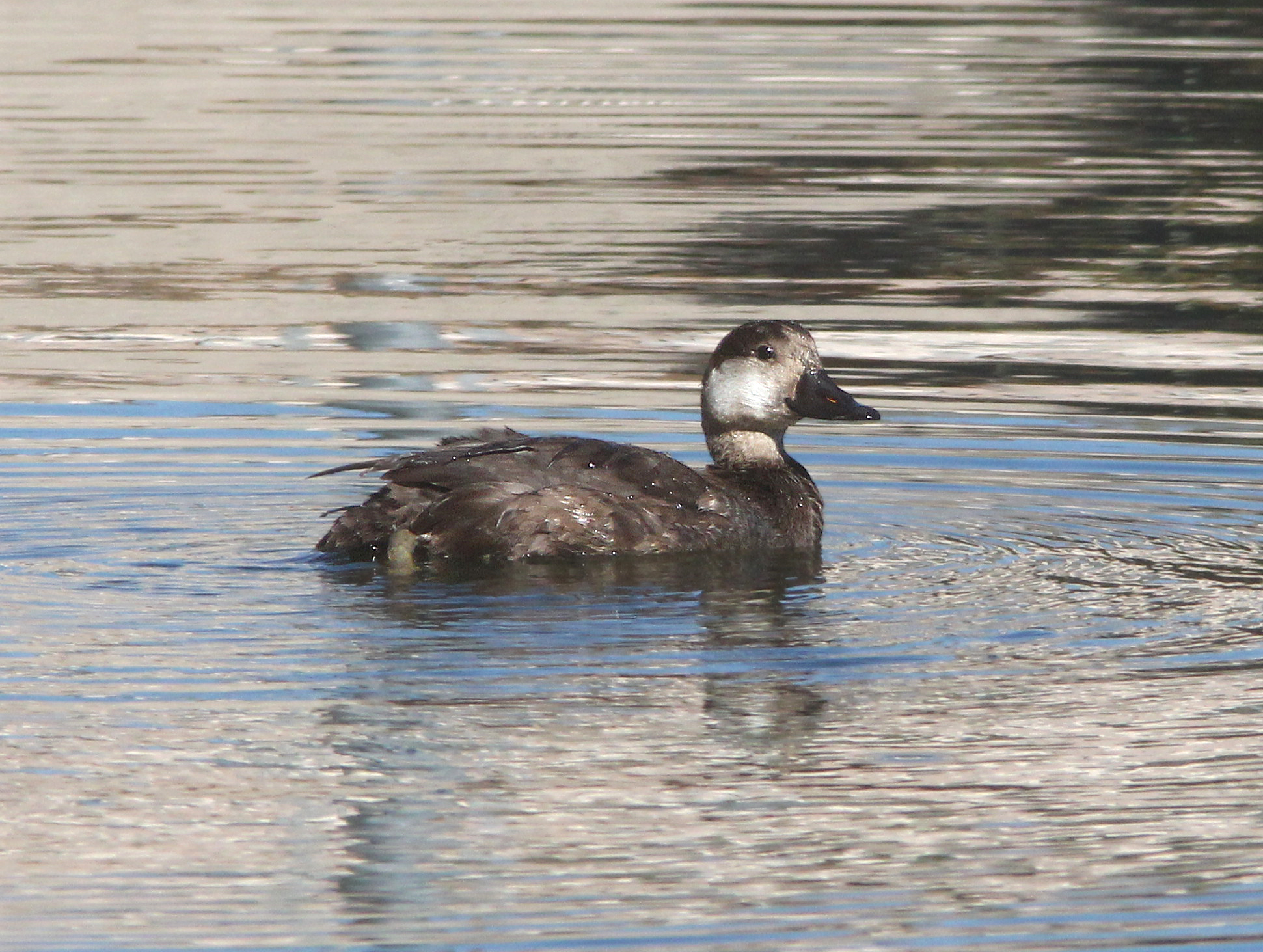 ABA AREA BIRDS: My Photo "Life List"